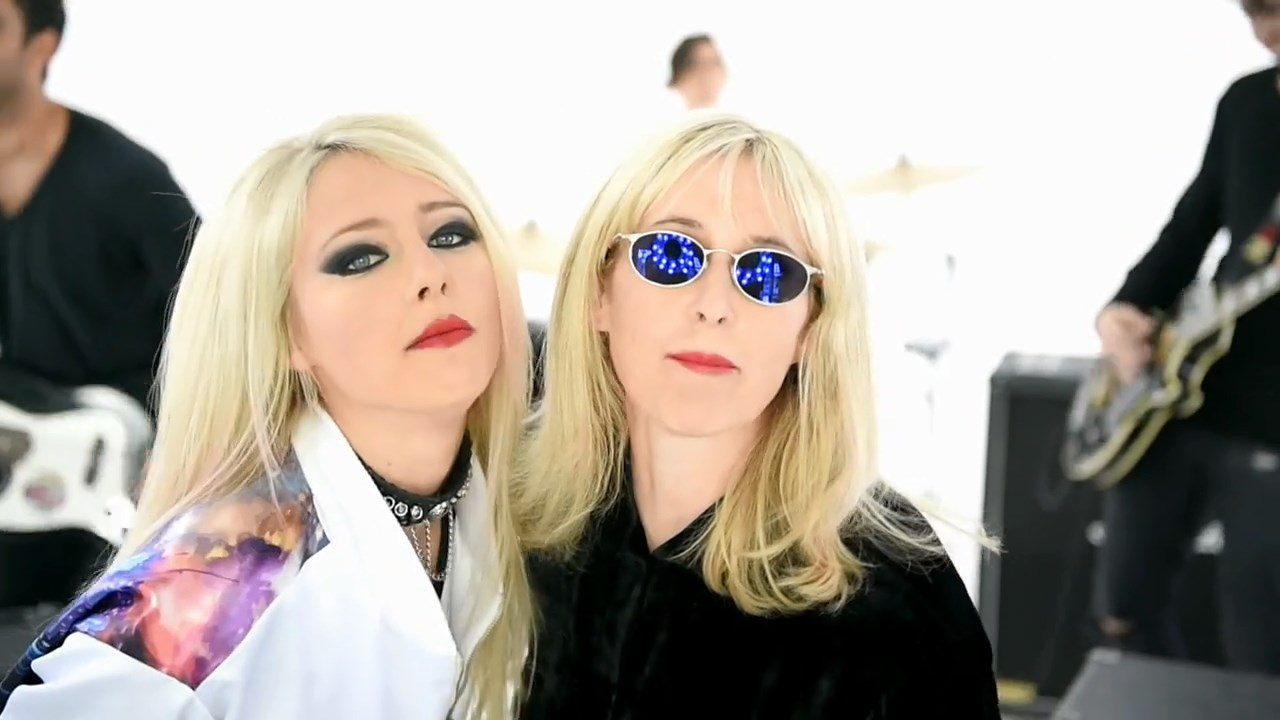 Joanna Stingray. Snapshot 2:50 from: Joanna Stingray video featuring Joanna and her daughter Madison Stingray, Directed by Mark Humphrey and Joanna Stingray, Produced by Red Wave and Xperience Factory